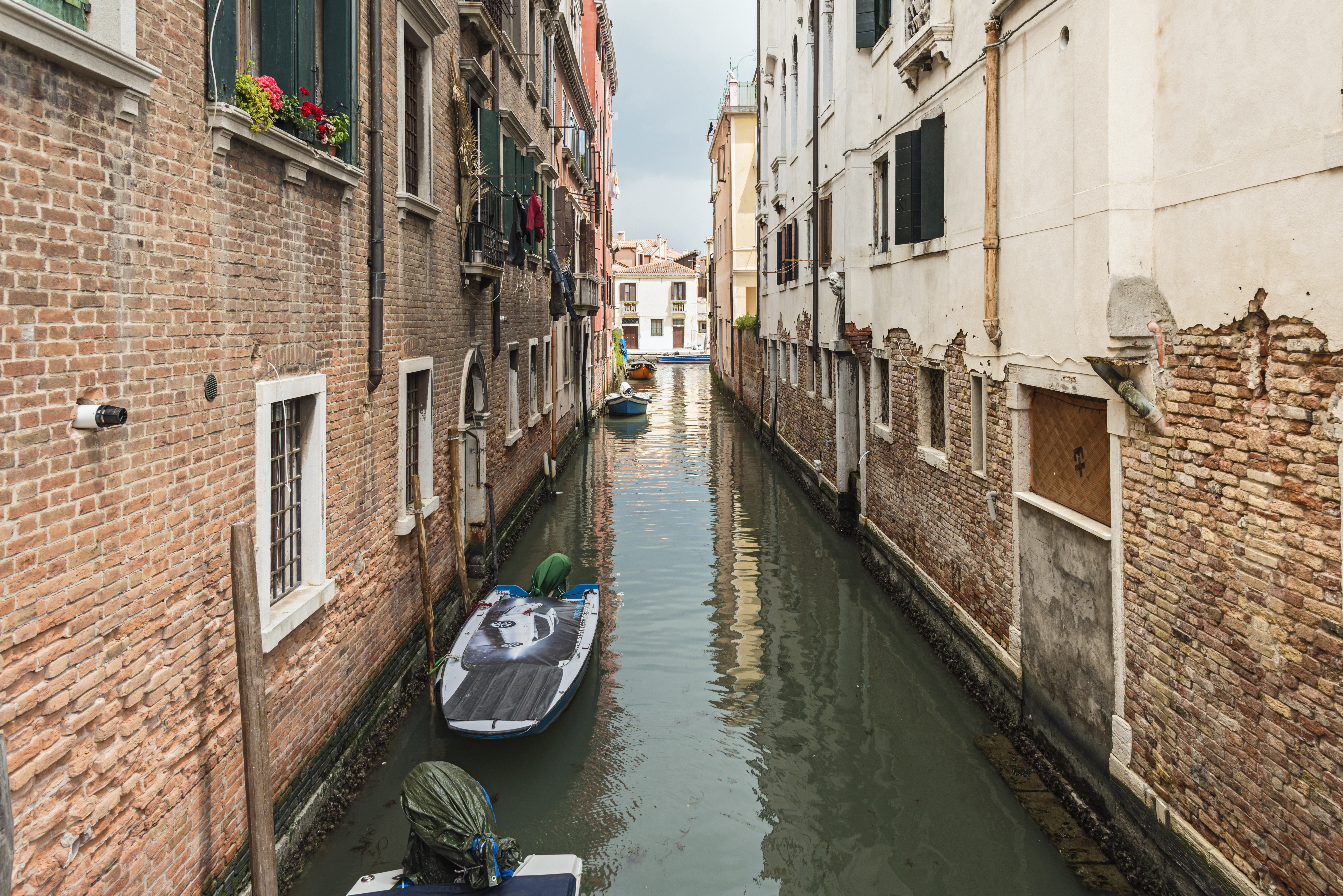 Rio dei Lustraferi, seen from Ponte dei Lustraferi Venice